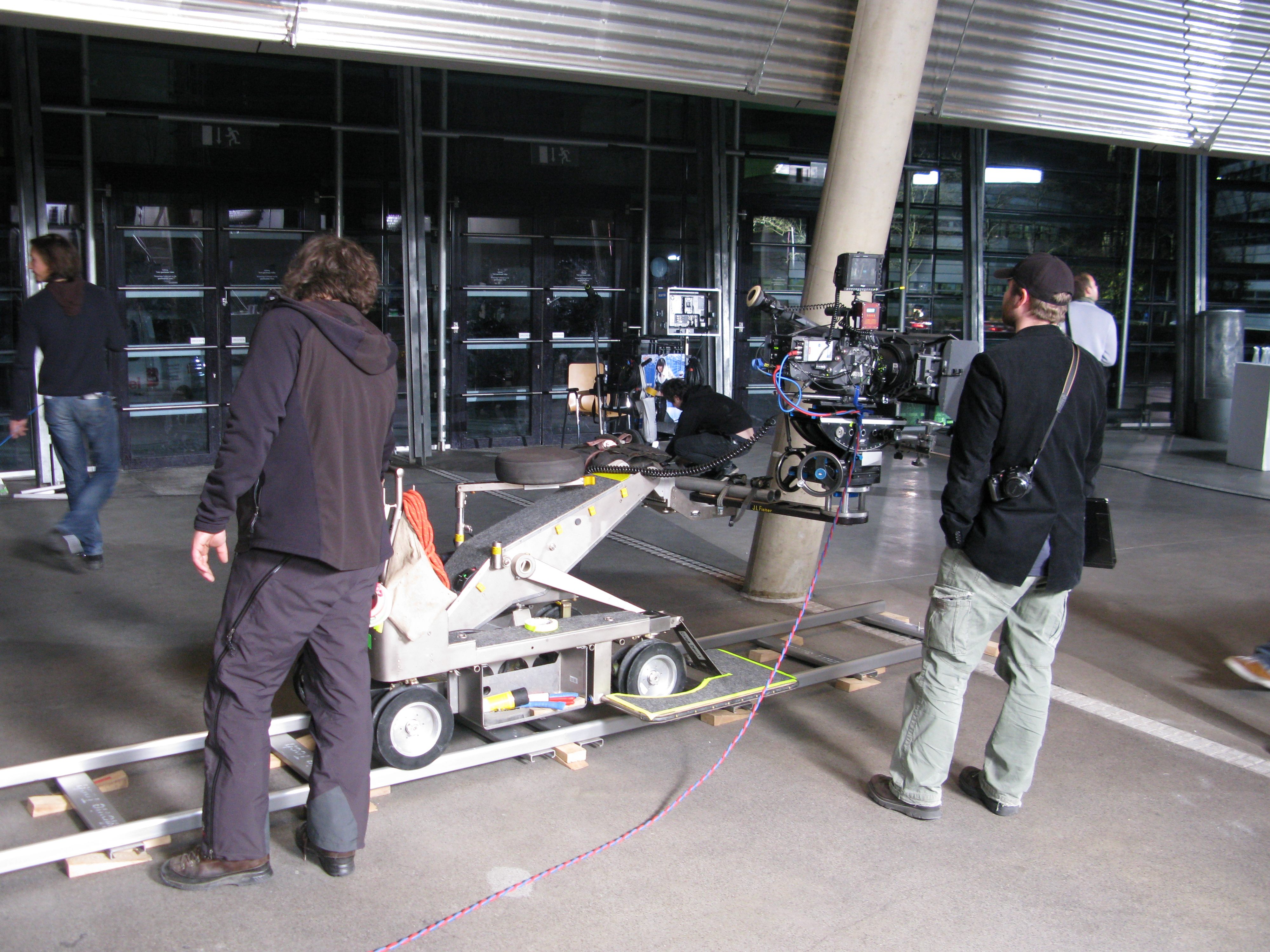 A J.L. Fisher model 10 camera dolly with an Arriflex D-21 camera.